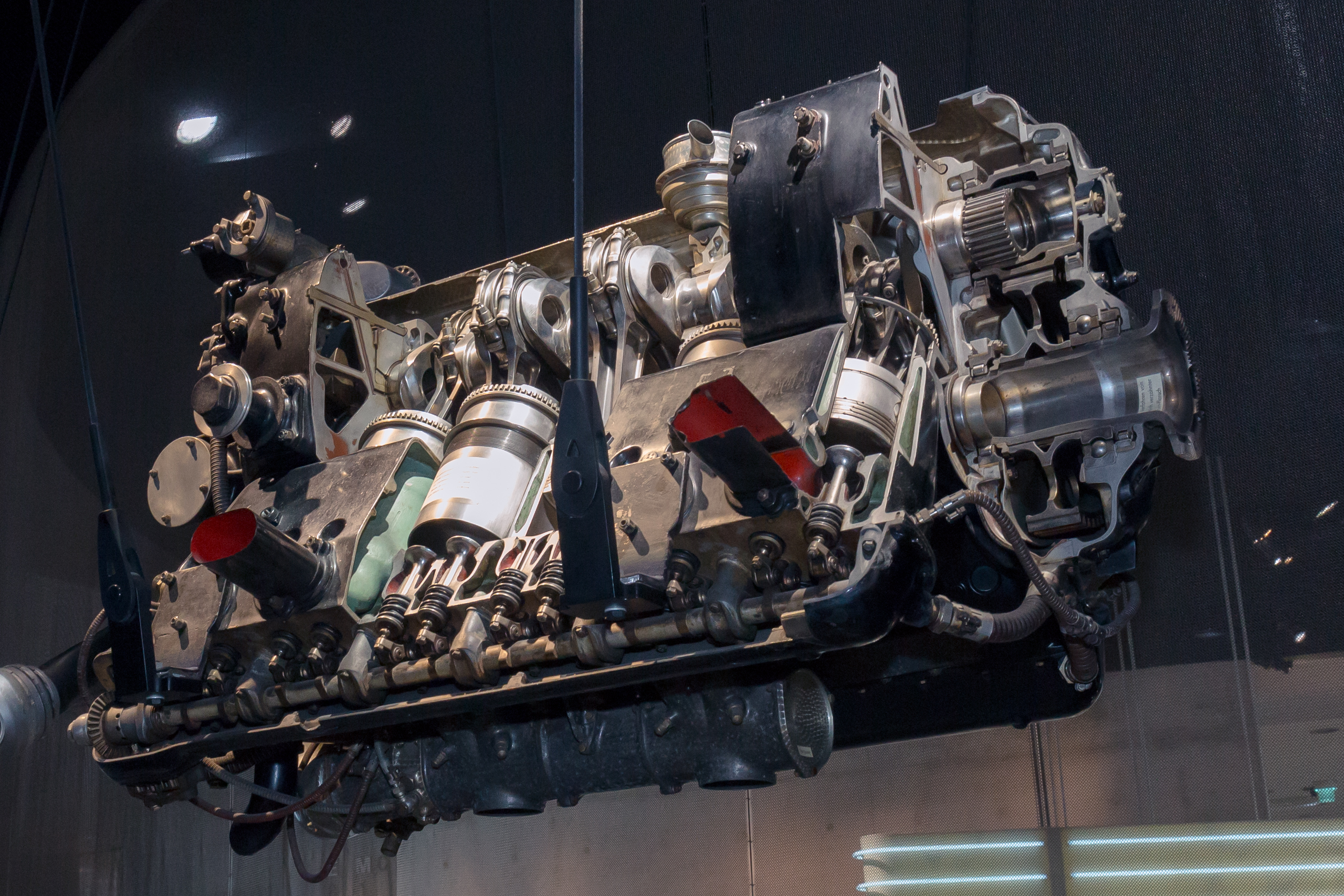 1935 Daimler DB 600 aircraft engine